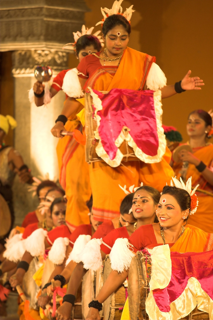 Dollu Kunita is popular folk dance from Karnataka.Double Decker